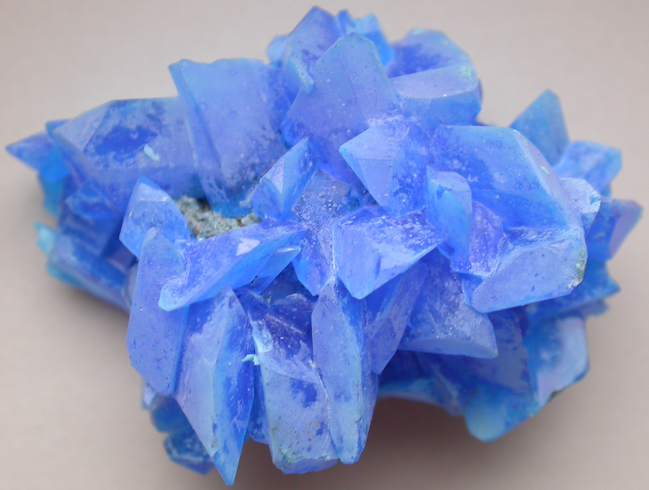 Chalcanthite (copper vitriol) - dehydrated (tarnished white by loss of water)